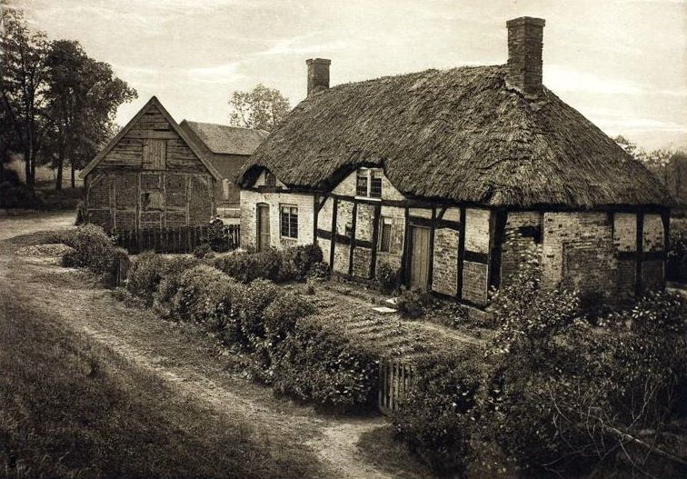 George Bankart English, 1829–1916 Izaak Walton's House at Shallowford, Staffordshire, 1888 Photogravure from "The Compleat Angler," Volume II, printed by William Clowes and Sons, Ltd., 1888 13.7 x 19.6 cm